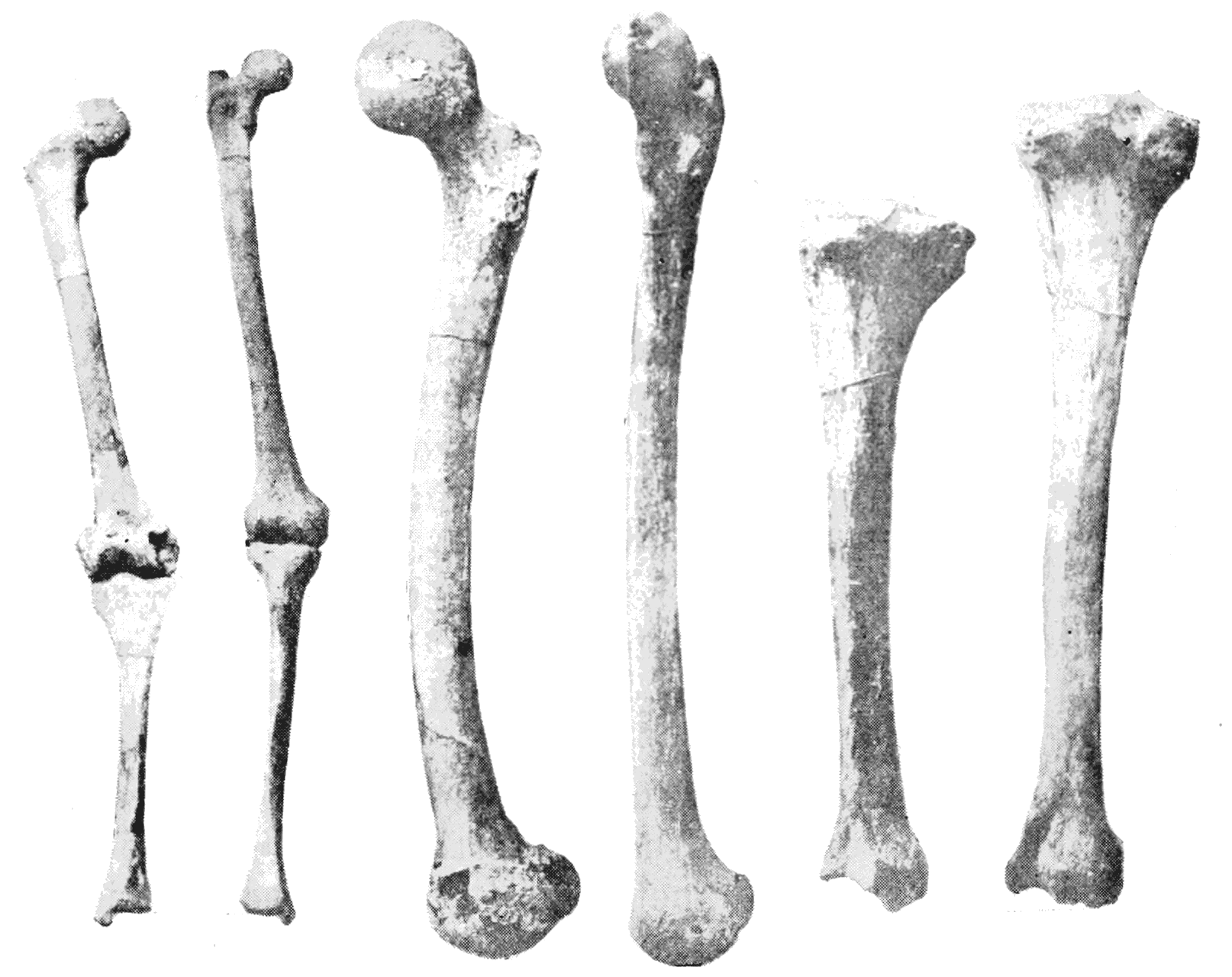 Showing leg bones: 3 pairs: Spy man (left) / modern man (right)